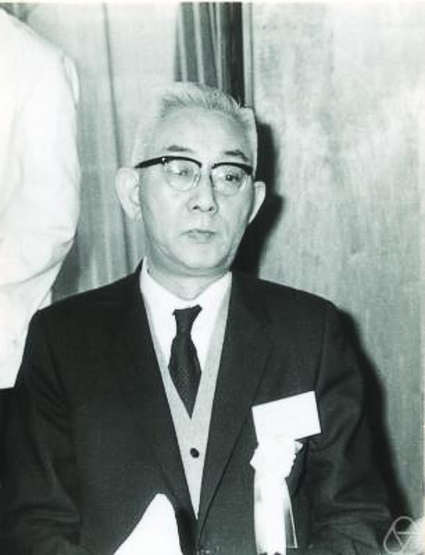 Portrait of Kōsaku Yosida 1969